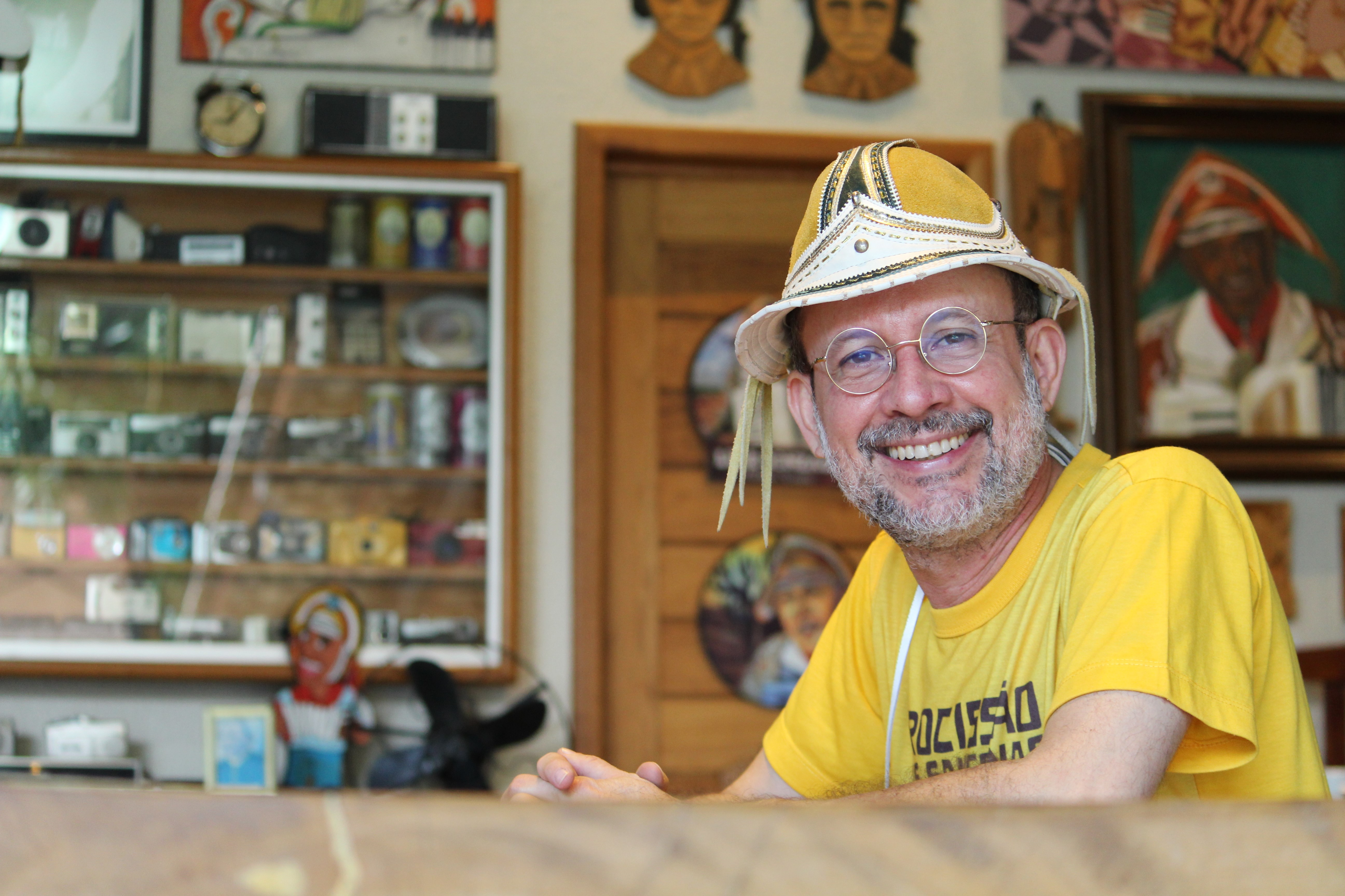 Professor